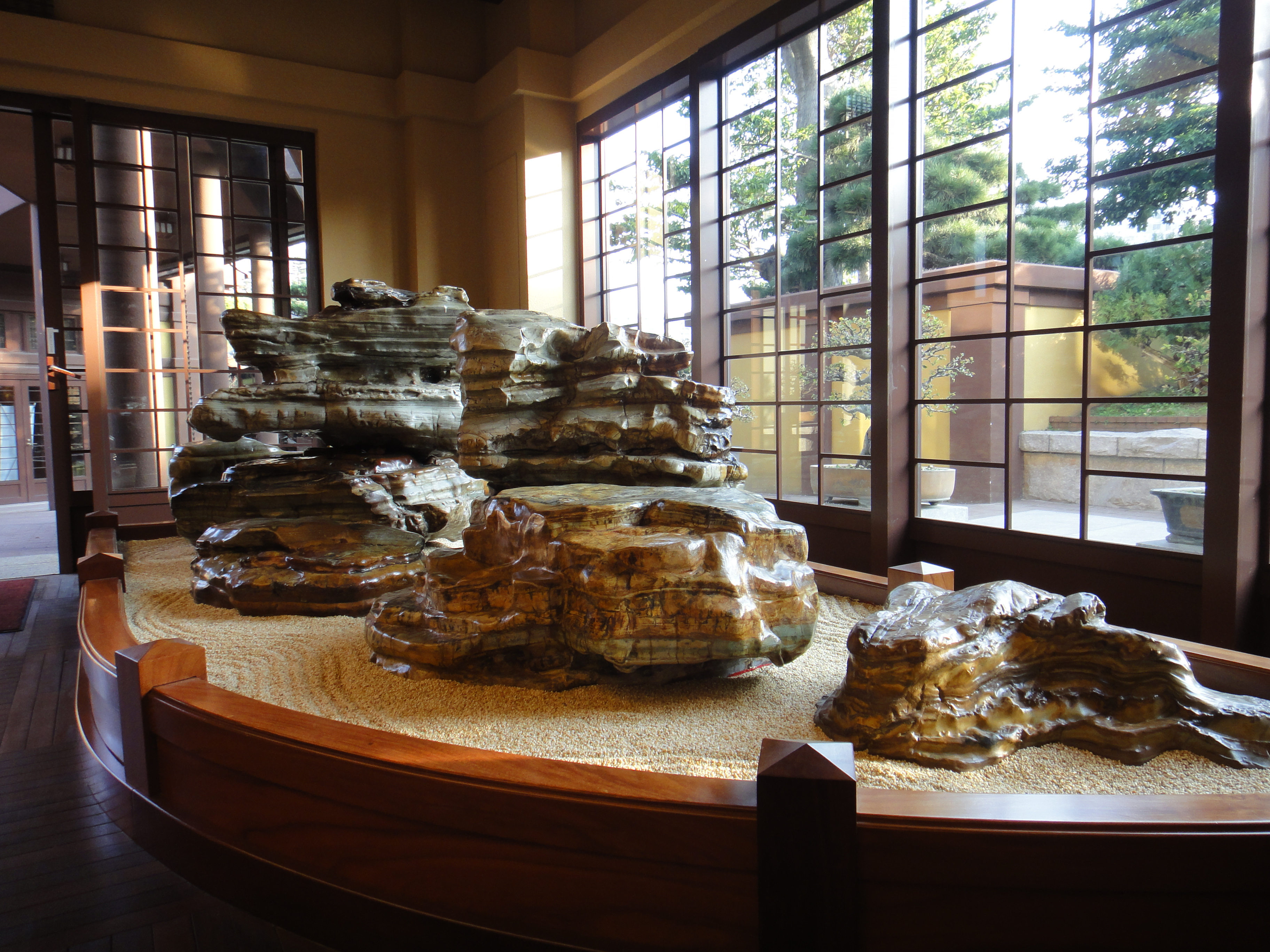 Nan Lian Rocks